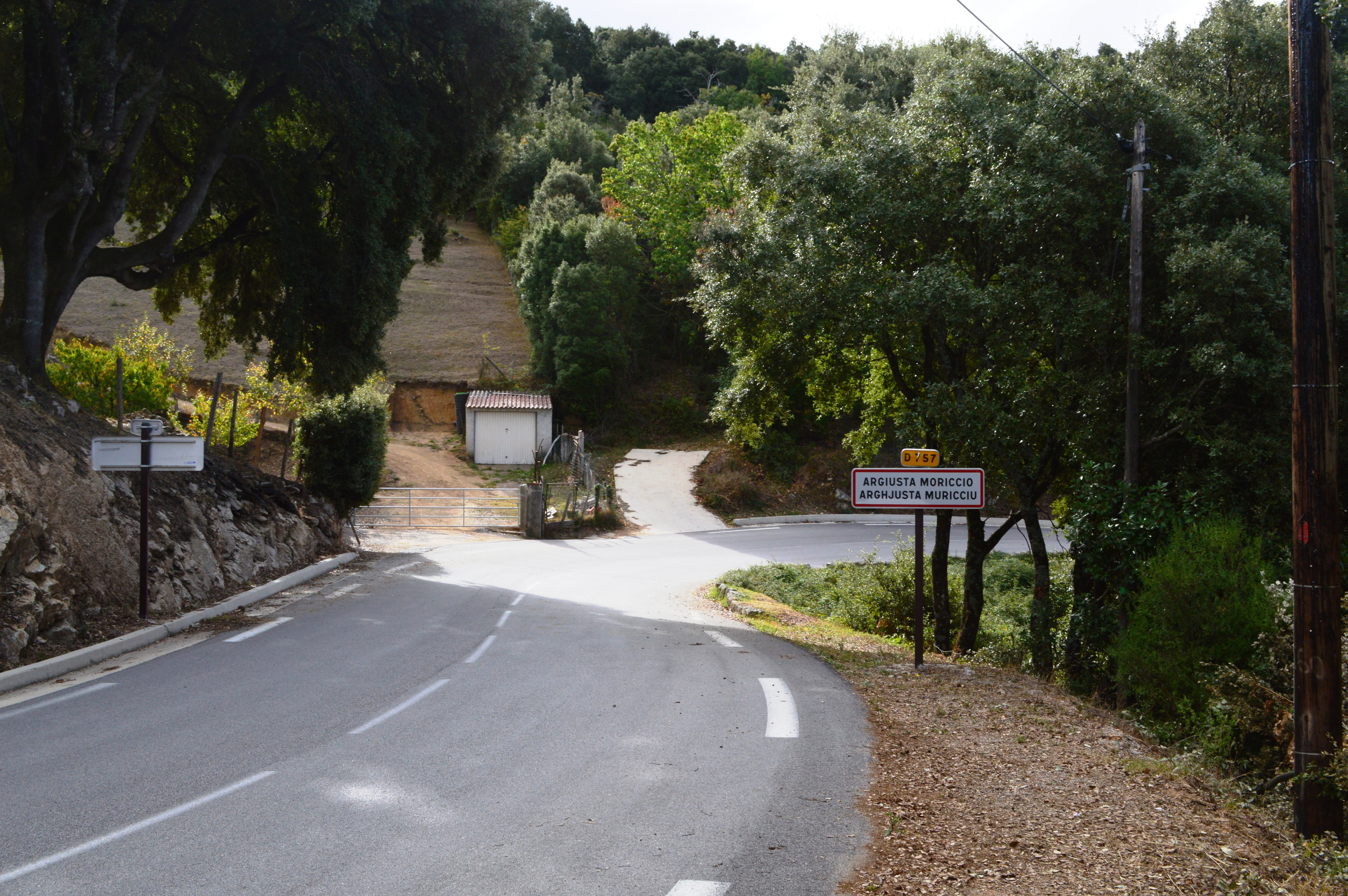 The entry to Argiusta-Moriccio